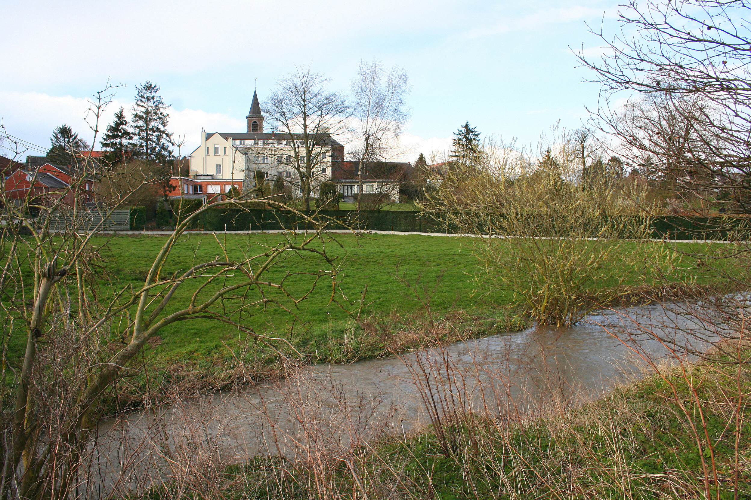 Villers-Saint-Amand (Belgium), the village viewed from the rue Probideau bridge.